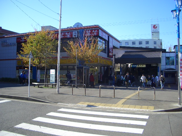 Zengyō Station east exit, on the Odakyu Enoshima Line, Fujisawa, Kanagawa 善行駅